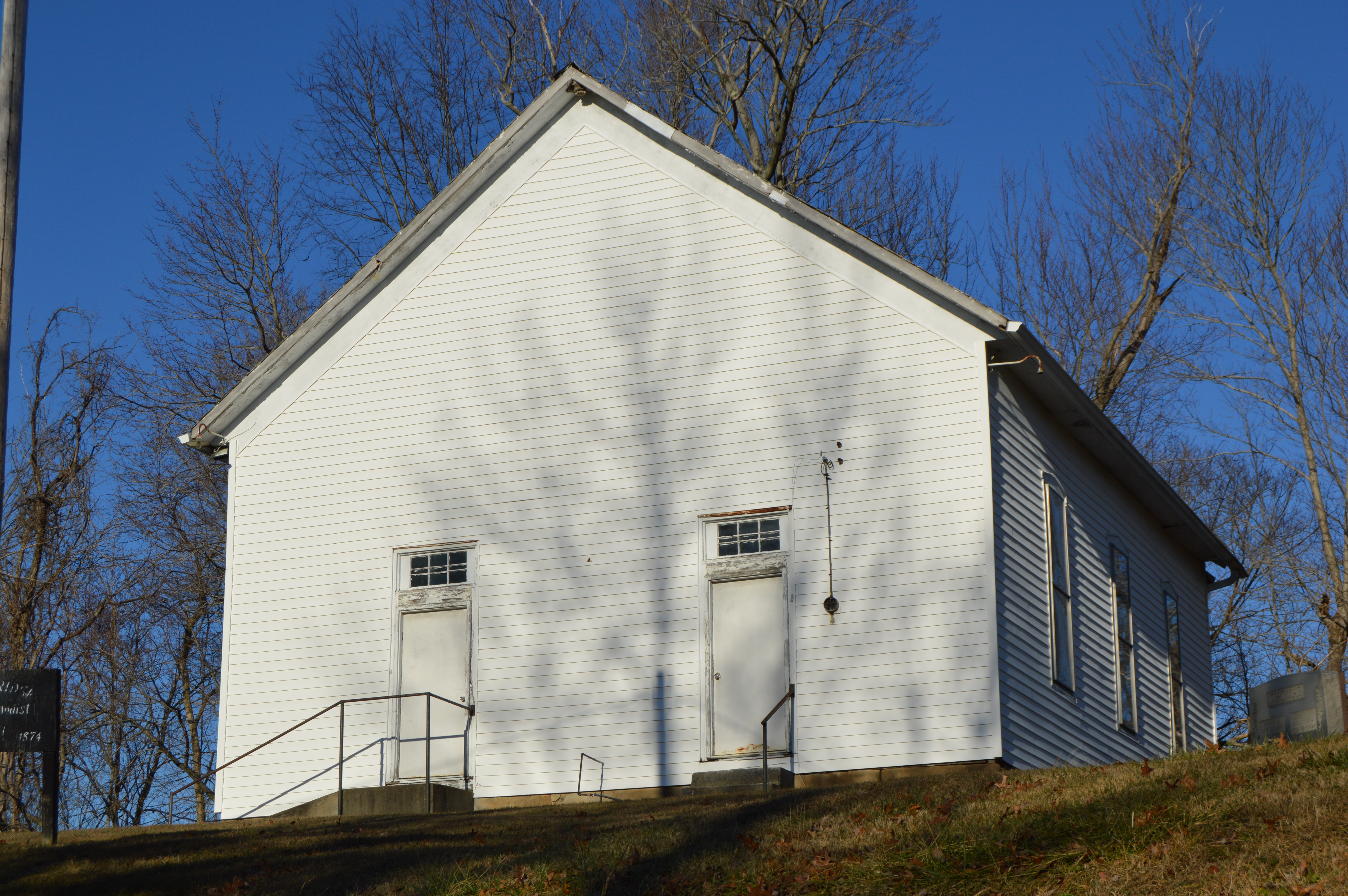 Front and southeastern side of the former Conner Ridge Methodist Church, located on Conner Ridge Road in southeastern Wayne Township, Monroe County, Ohio, United States. It was built in 1874.